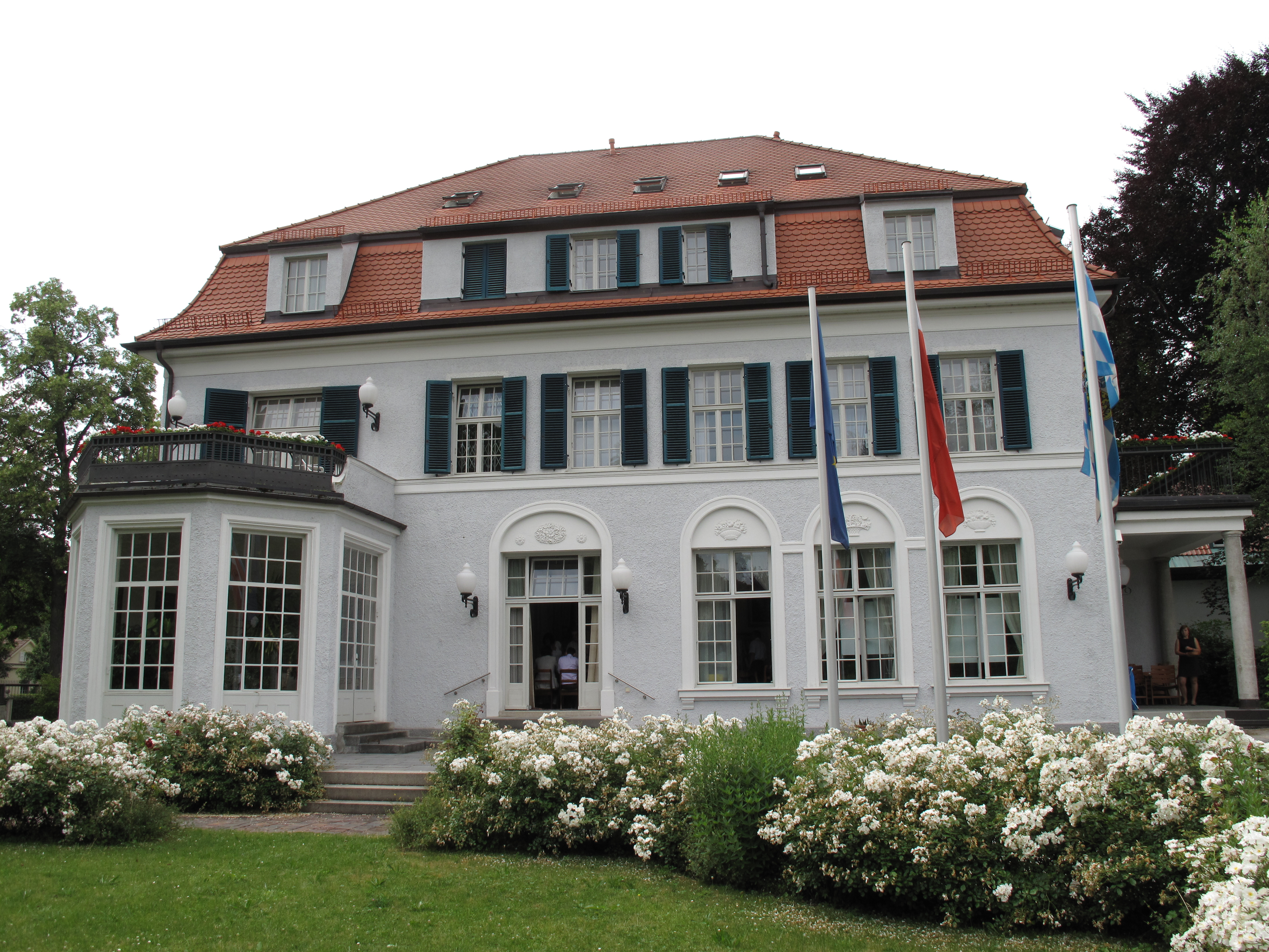 The consulate general of the Republik of Poland in Munich (Bogenhausen).